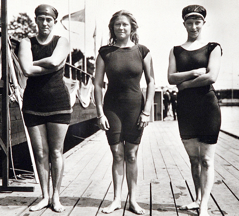 Olympic Games,Stockholm, Swimming, Women's Freestyle 100 Metres, Australian gold medal winner Fanny Durack (left) stands with Australian silver medallist W, Wylie (centre) and Great Britain's bronze medal winner J, Fletcher